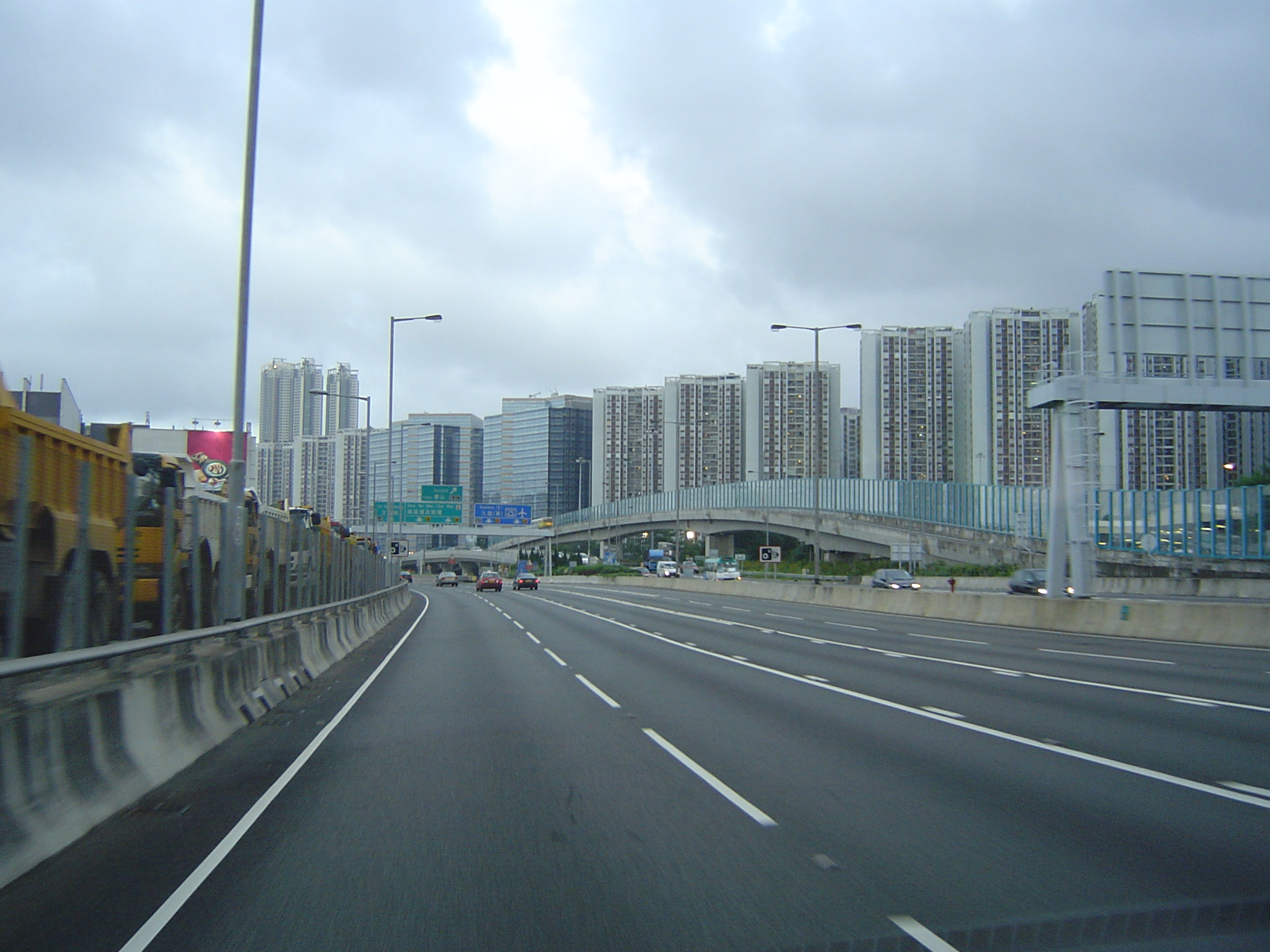 Island Eastern Corridor, approaching Tai Koo Shing